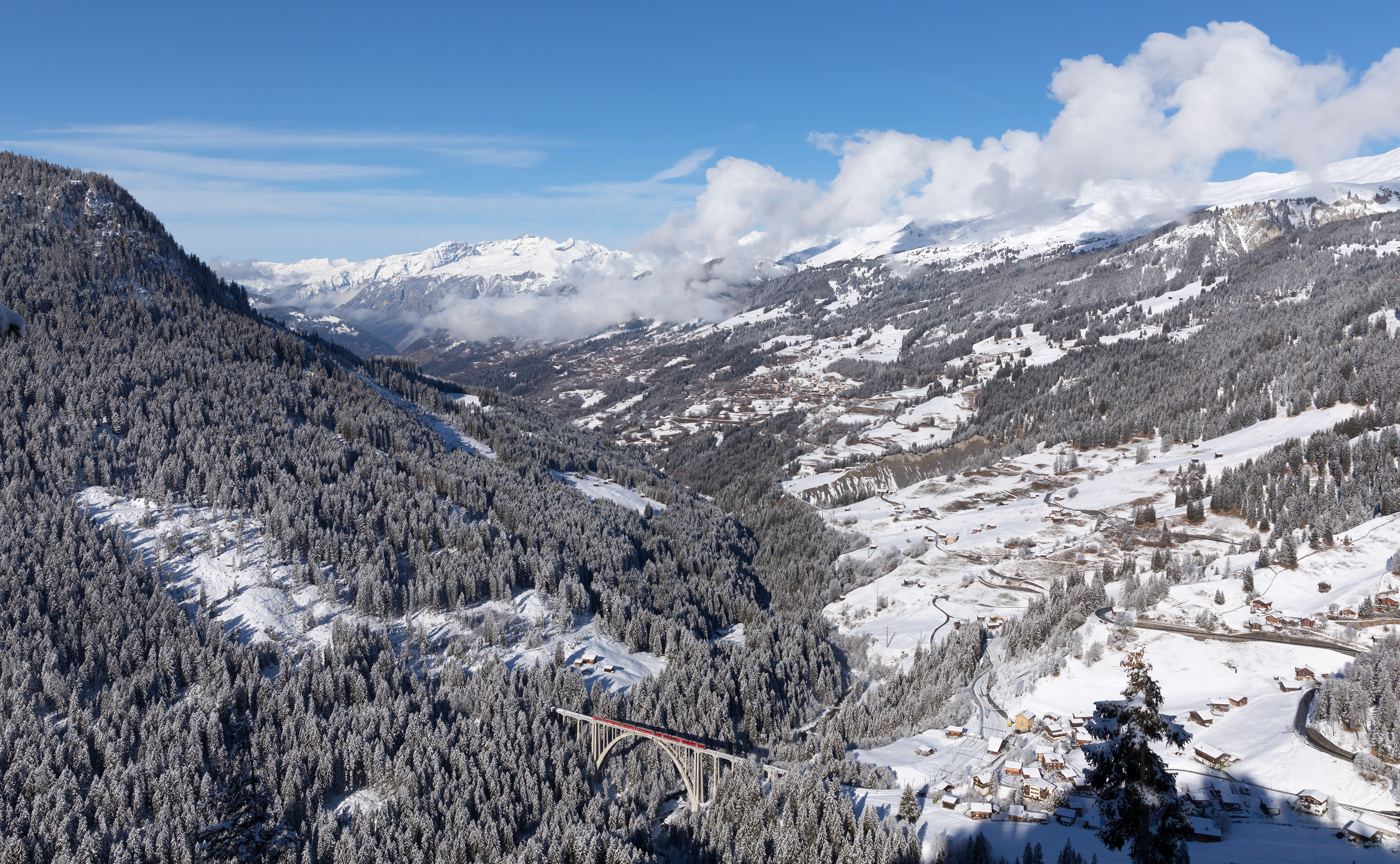 An ABe 8/12 "Allegra" unit crosses the Langwieser Viaduct with a local train from Arosa to Chur, Switzerland.